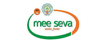 Mee Seva Logo